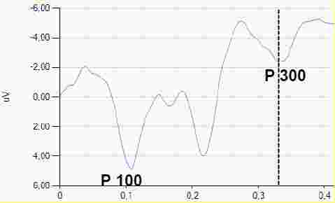 P300 in VEPs